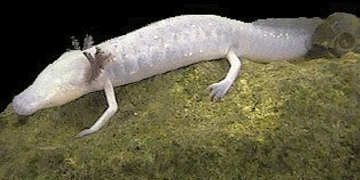 Eurycea rathbuni formerly Typhlomolge rathbuni - Texas blind salamander